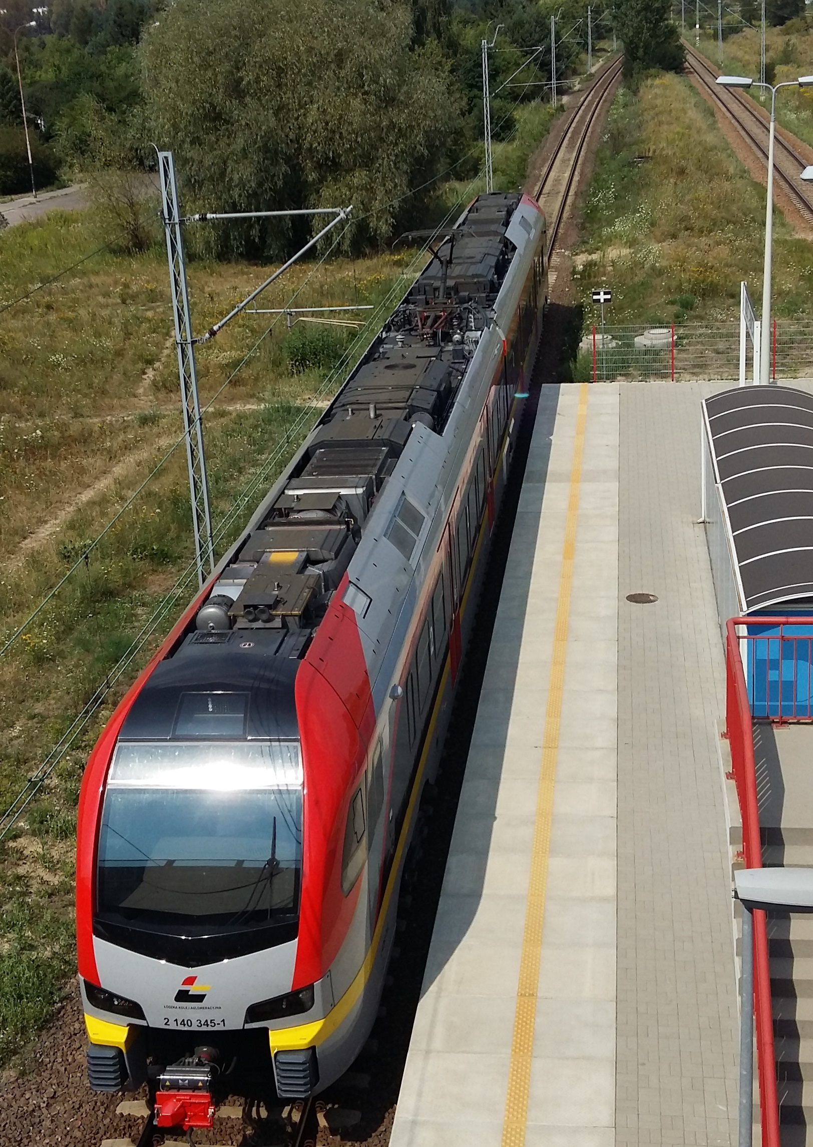 Stadler FLIRT in Łódź Dąbrowa station.